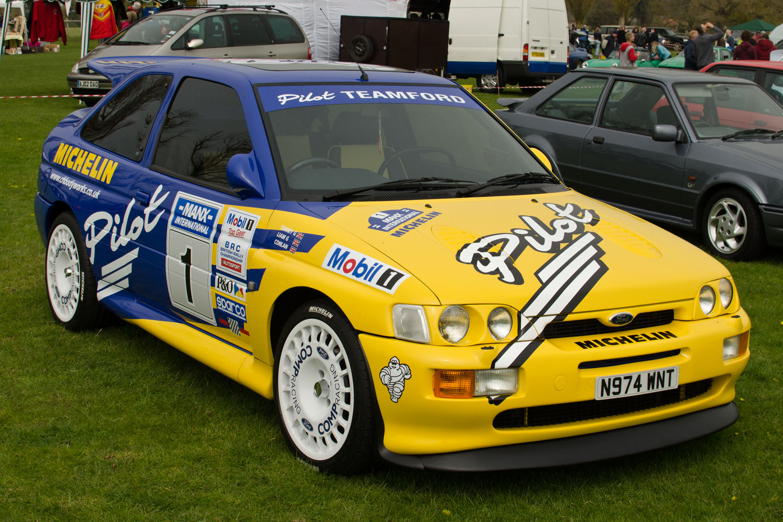 Former Ford Escort RS Cosworth of Malcolm Wilson at the 2014 St Asaph Classic Car Show.